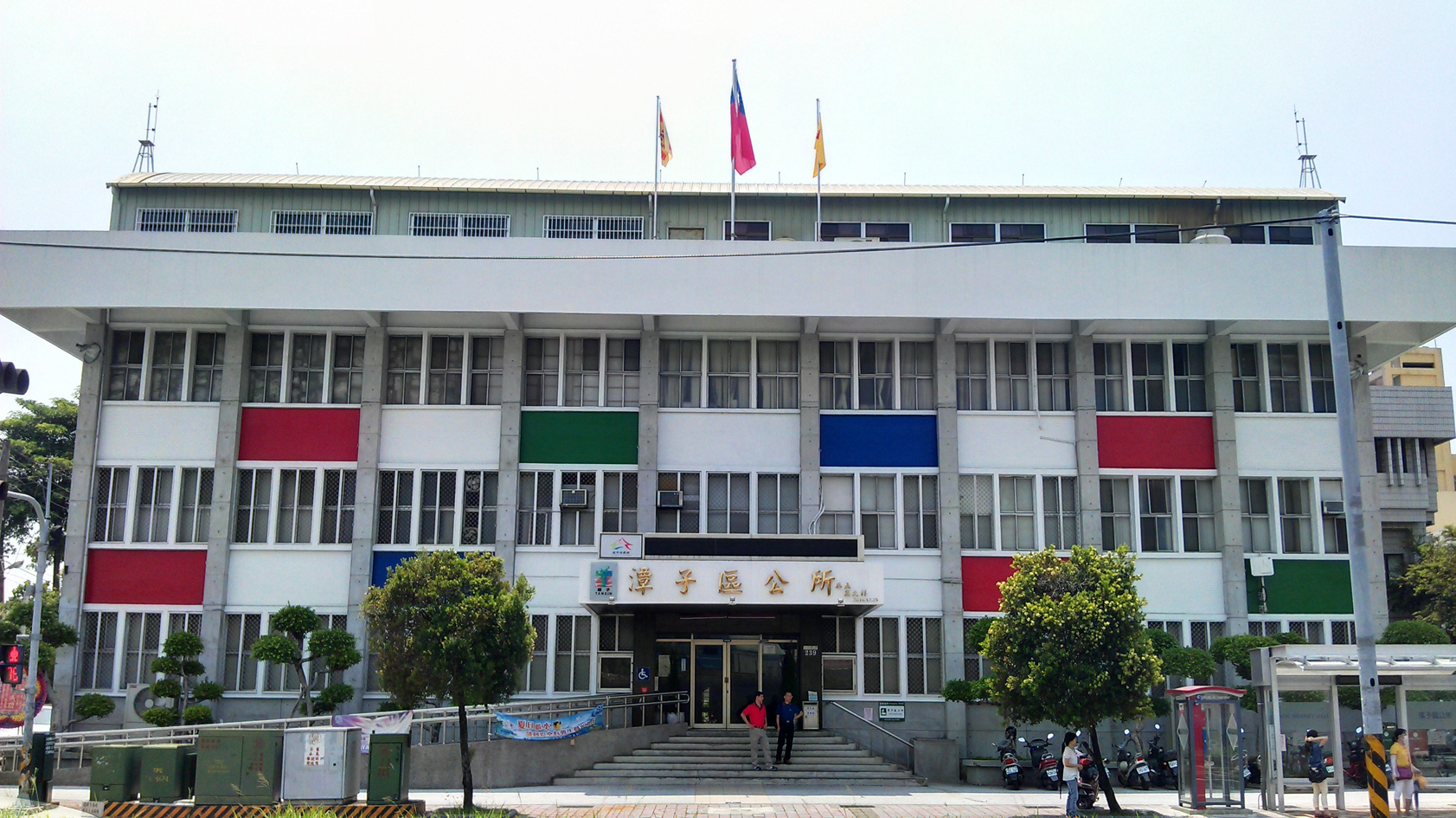 Tanzi District Office, Taichung City, Taiwan中文（台灣）: 潭子區公所